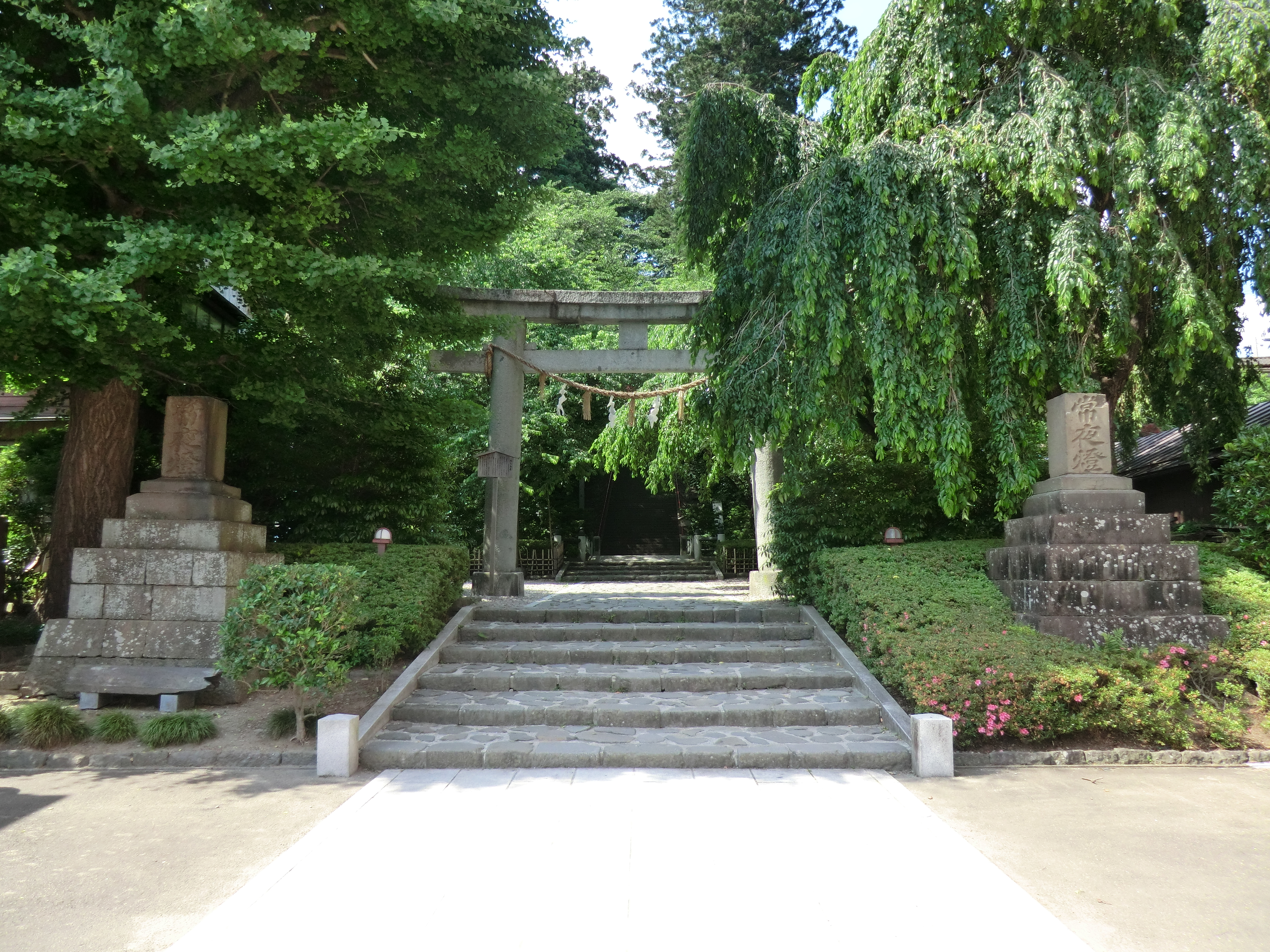 A rock torii of Ōsaki Hachiman-gū Casio Exilim EX-H20G